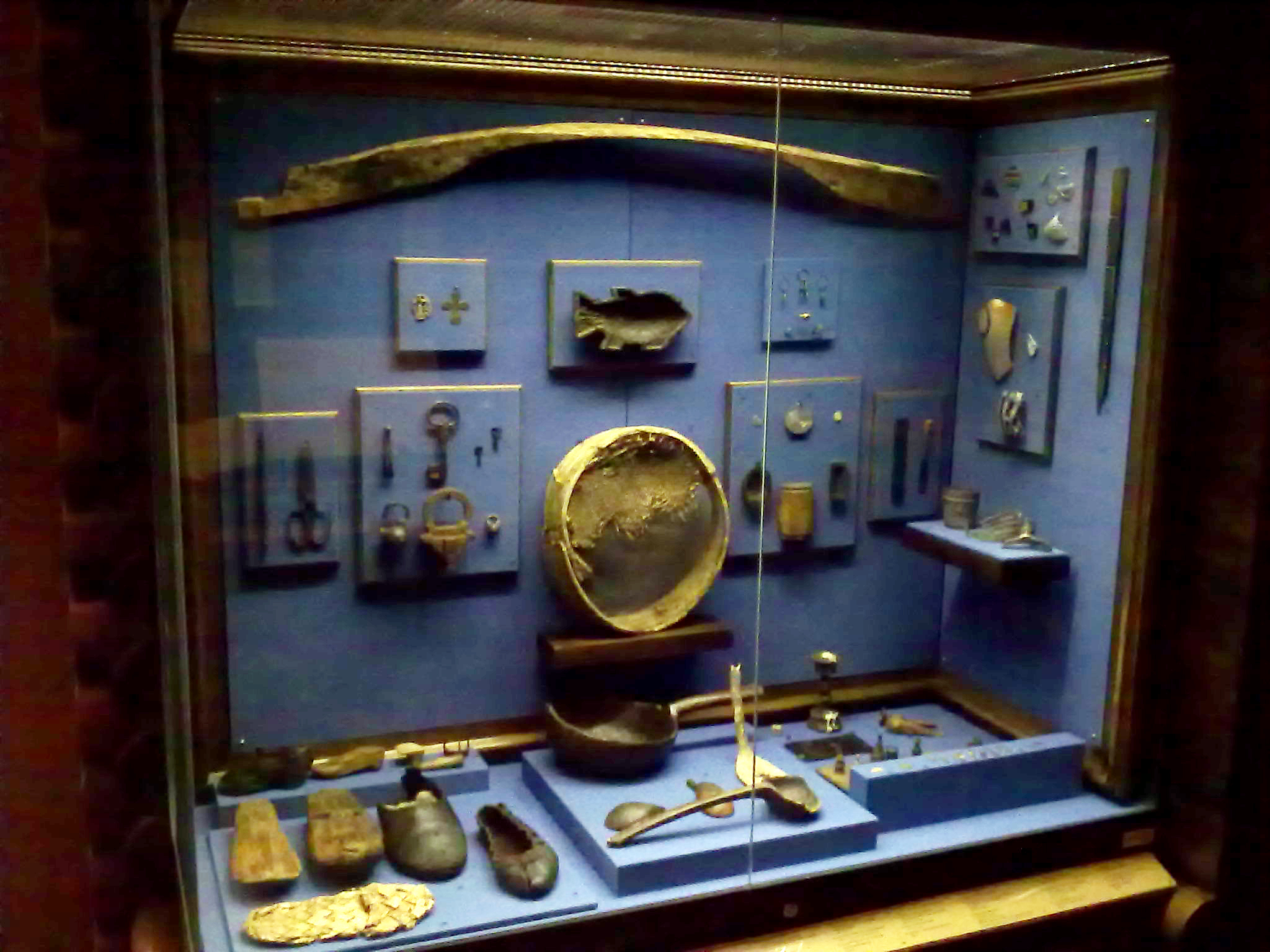 Materials of archaeological excavations in Mangazeya (1601-1672) in the State Historical Museum on Red Square, Moscow, Russia